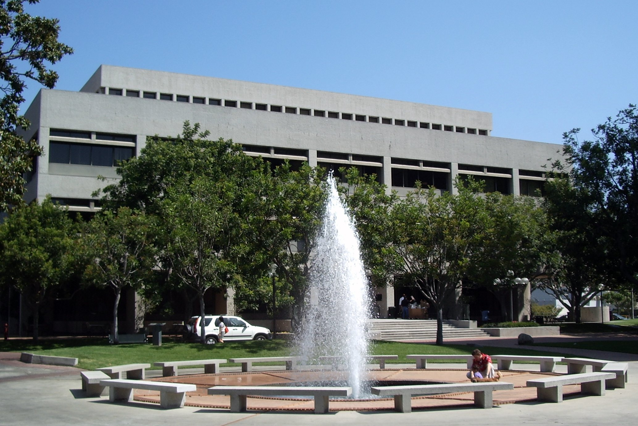 Picture of the University of Southern California Law School and fountain. Taken by Pbgr.